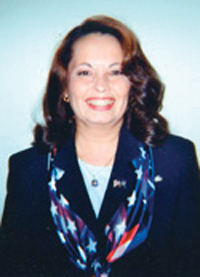 Photo of Judge Dora L. Irizarry